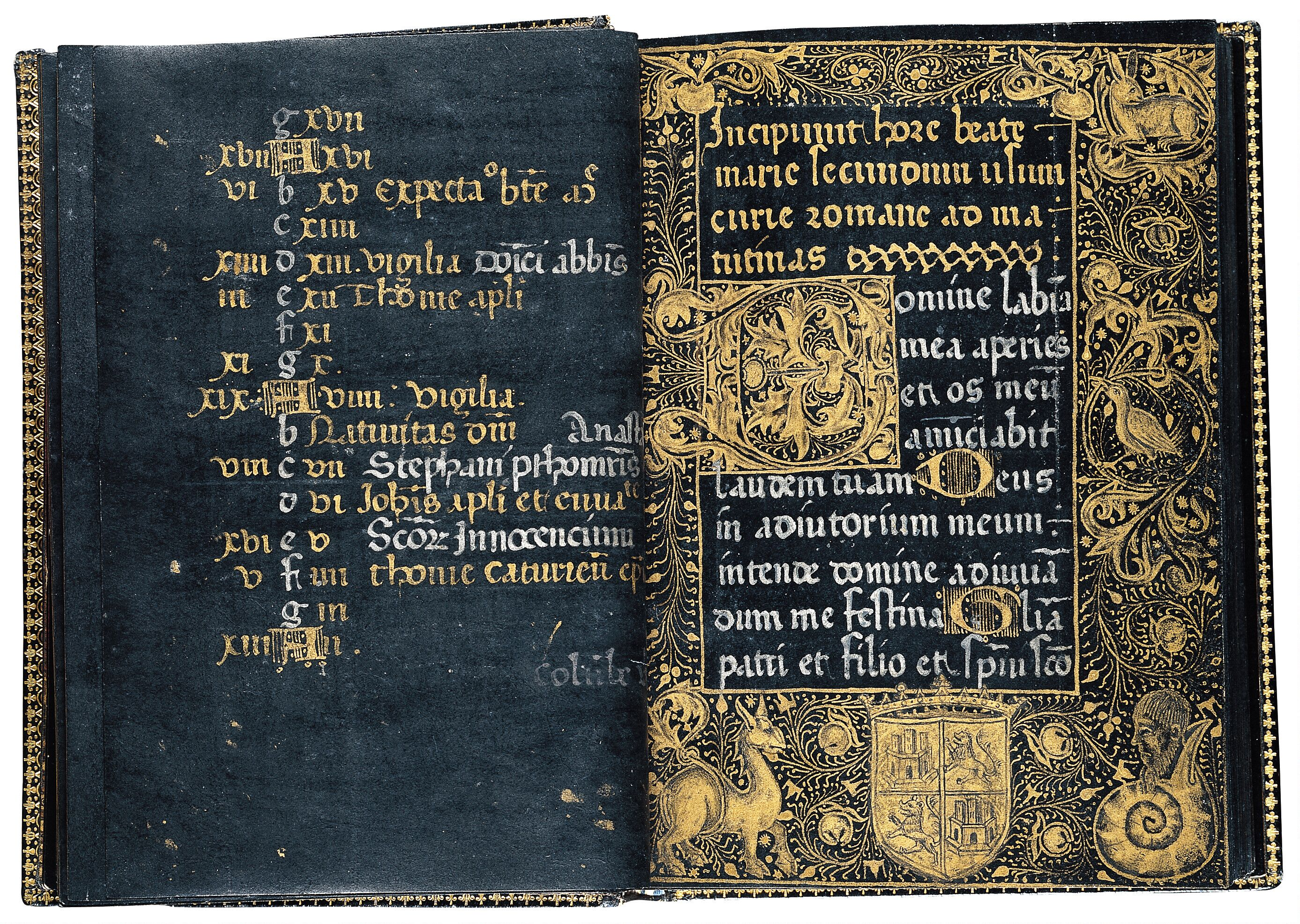 "Horae beatae marie secundum usum curie romane". Illuminated manuscript on parchment, 152 fols